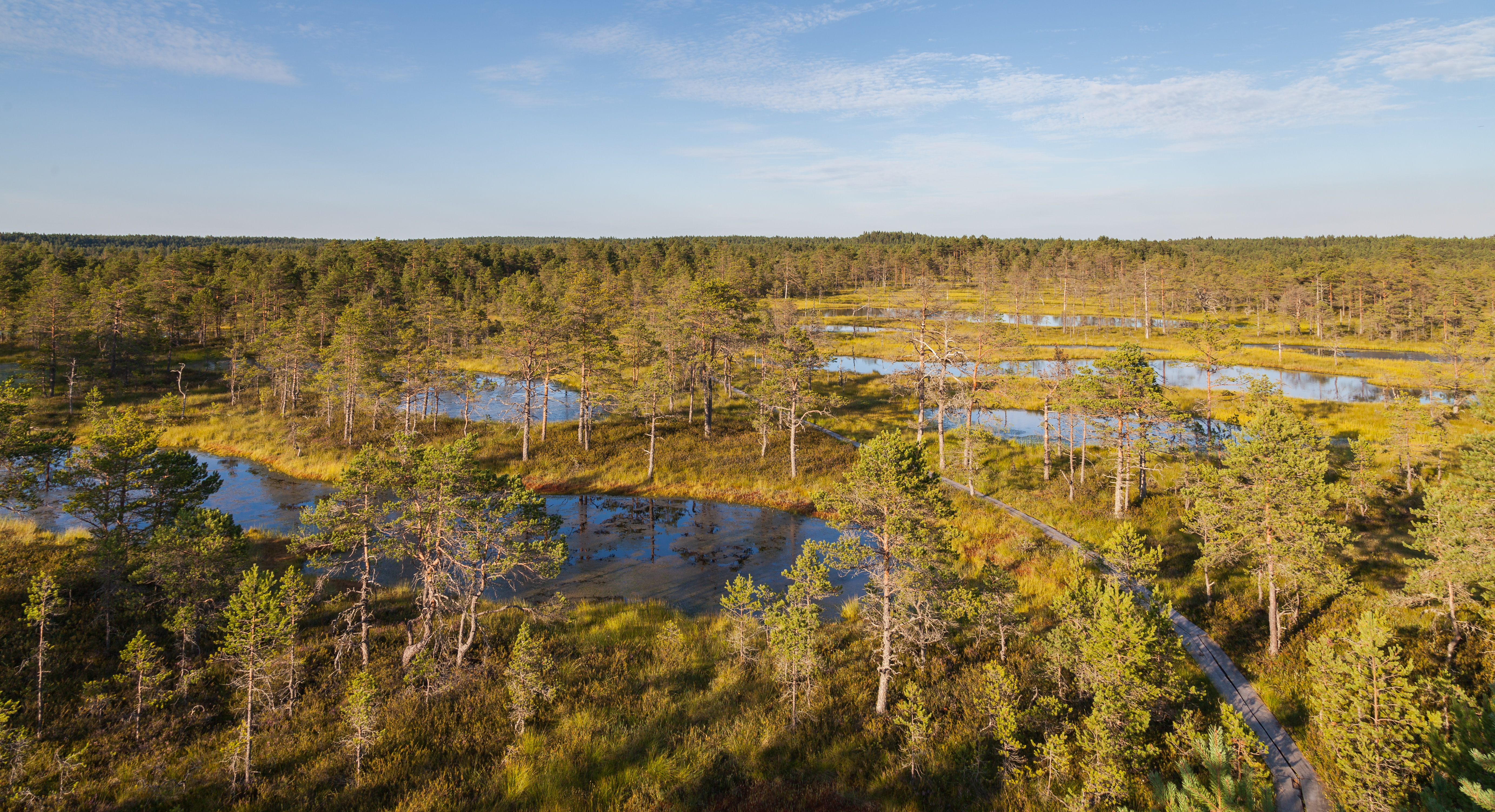 Viru bog, Lahemaa National Park, Estonia